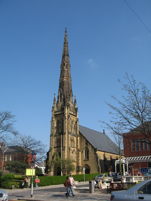 St George's URF Church, Lord Street The elegant steeple of St George's United Reformed Church, founded in 1874, stands proudly in the centre of Lord Street.